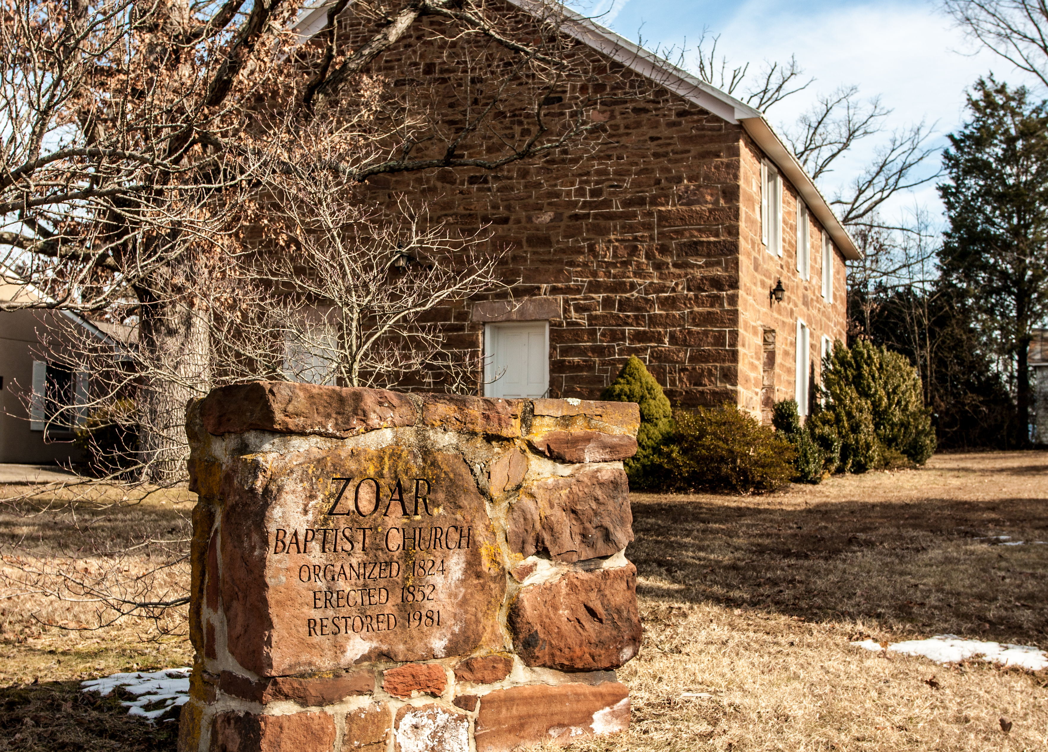 Zoar Baptist Church with Stone Sign, Bristersburg, Virginia, in Fauquier County